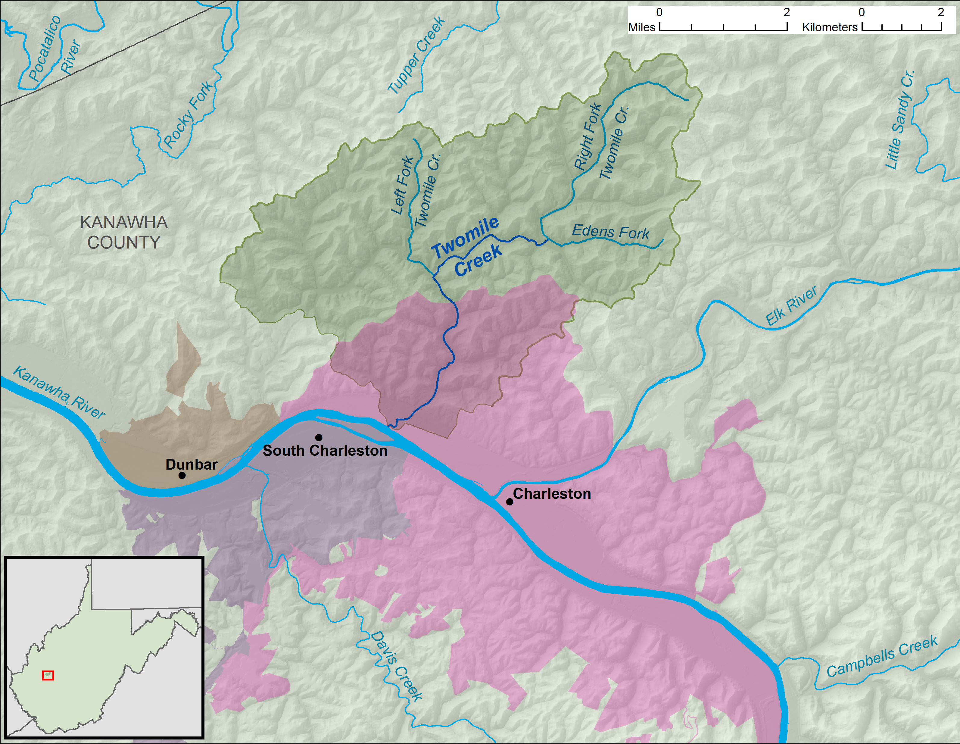 A map of Twomile Creek and its watershed (USGS HUC-12 code 050500080301), in Kanawha County, West Virginia.